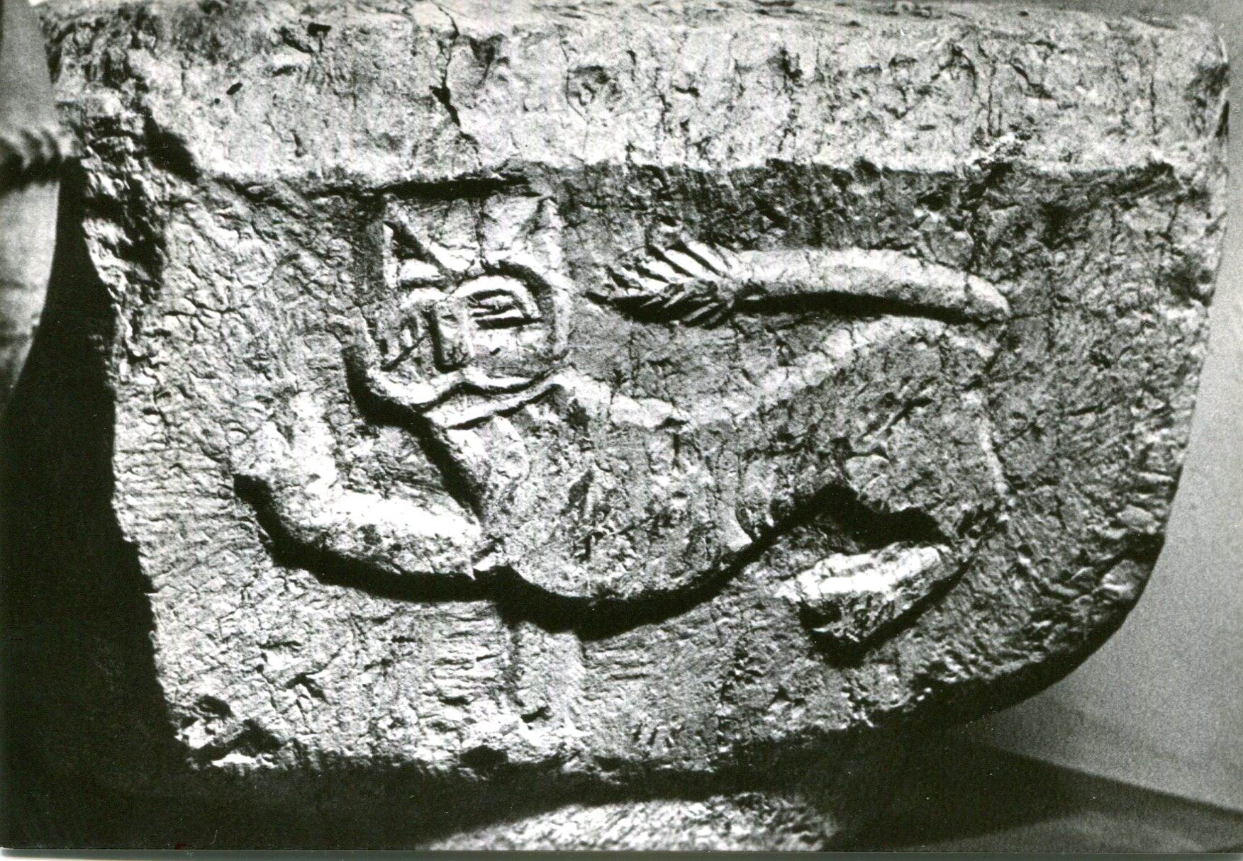 Column capital from Stara Zagora, with carved lion's image (probably from a church). 9th-10th cent.